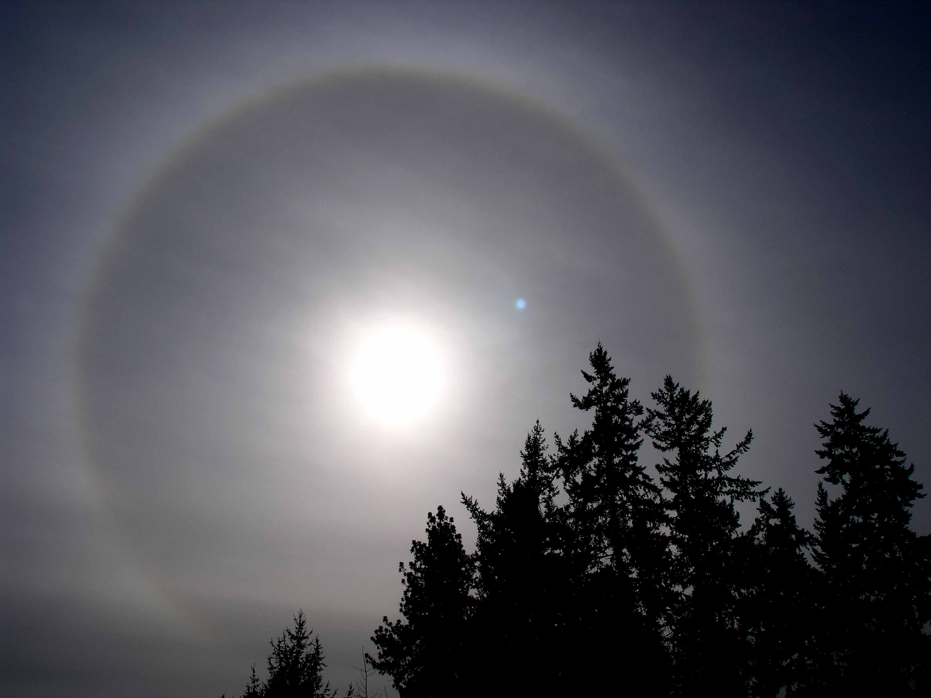 Sun 22° Halo & Trees. Portland, Oregon.